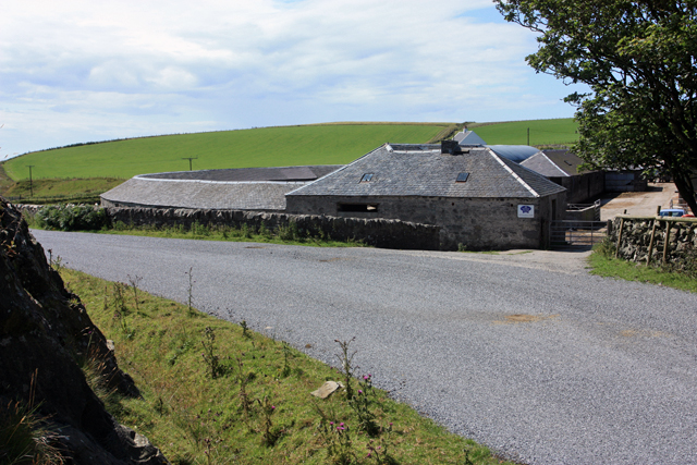 Kilchiaran Farm The semi-circular threshing barn is unusual.